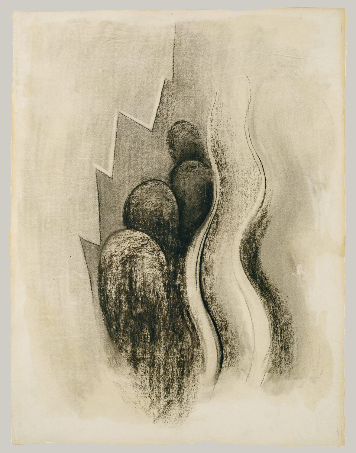 Georgia O'Keeffe, Drawing XIII, 1915, charcoal on paper, Metropolitan Museum of Art Department: Modern Art Culture/Period/Location: HB/TOA Date Code: Working Date: 1915 photography by mma 1997, transparency #3A scanned and retouched by film and media (jn) 12_15_04